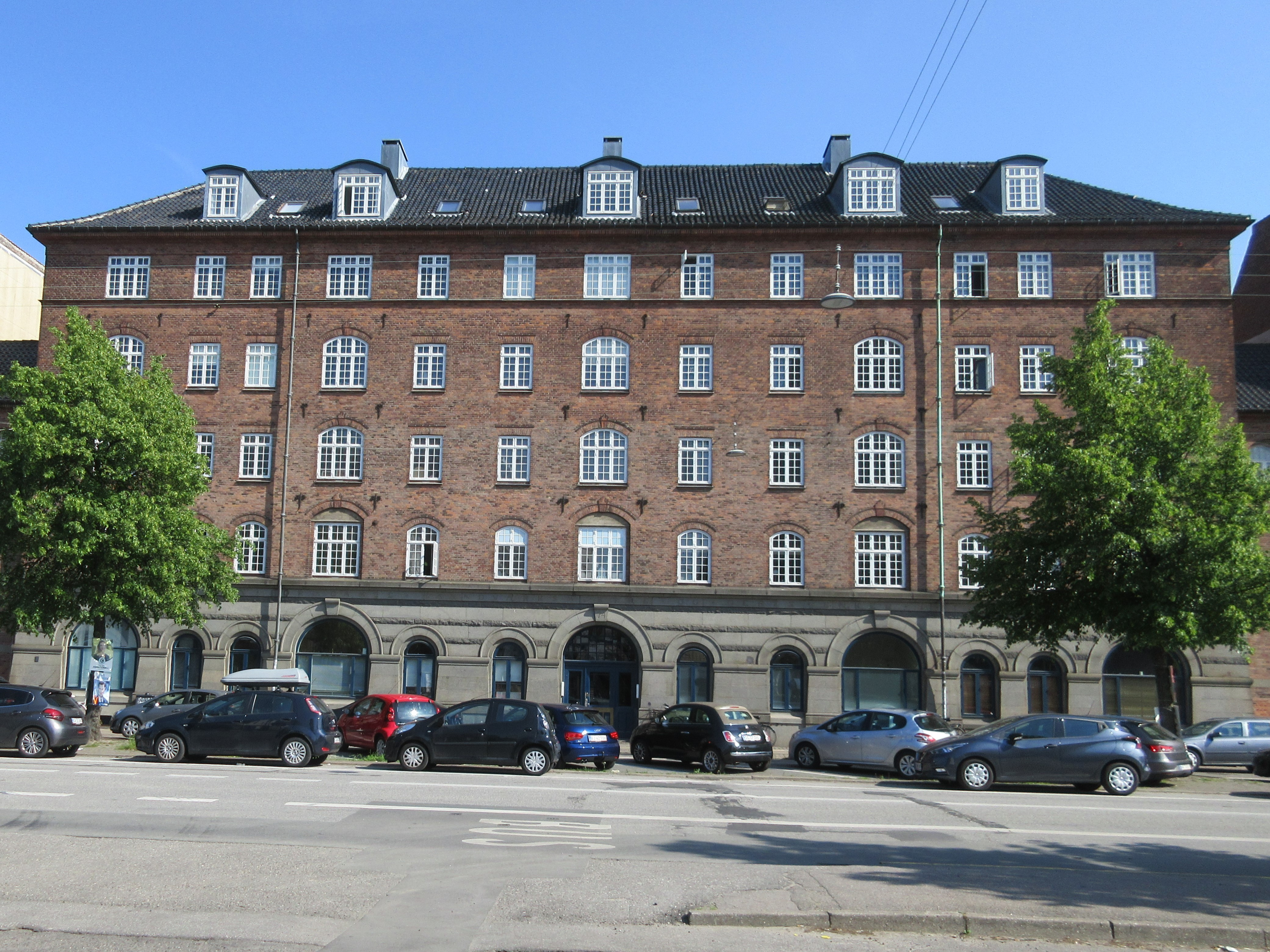 Haandværkerstiftelsen at Blegdamsvej 74 in Copenhagen, Denmark